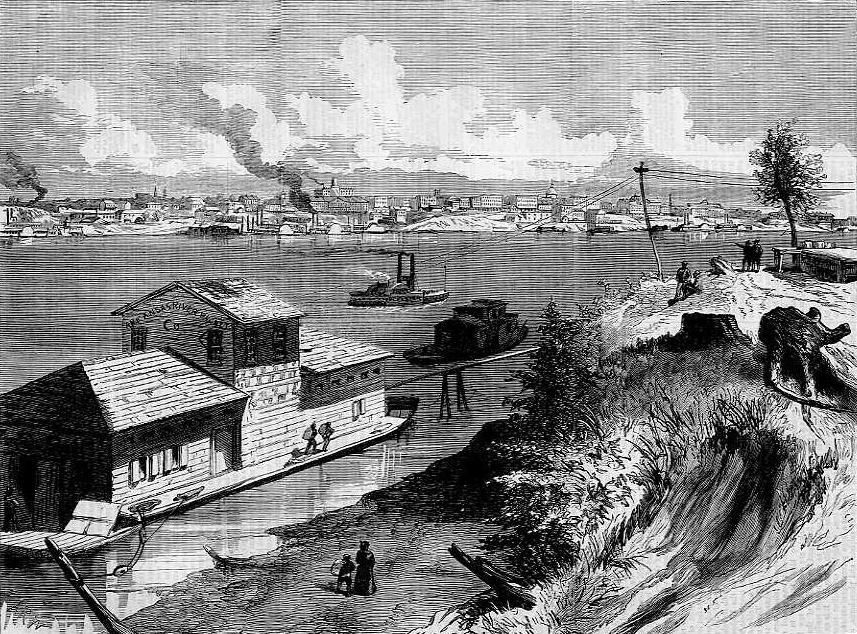 A View of Memphis, Tennessee, a wood engraving published September 1871 in Every Saturday, Boston, Massachusetts.